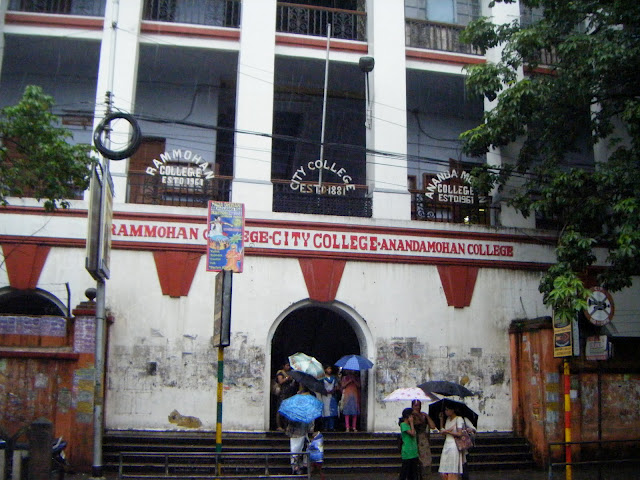 City College,Amherst Stree, Kolkata